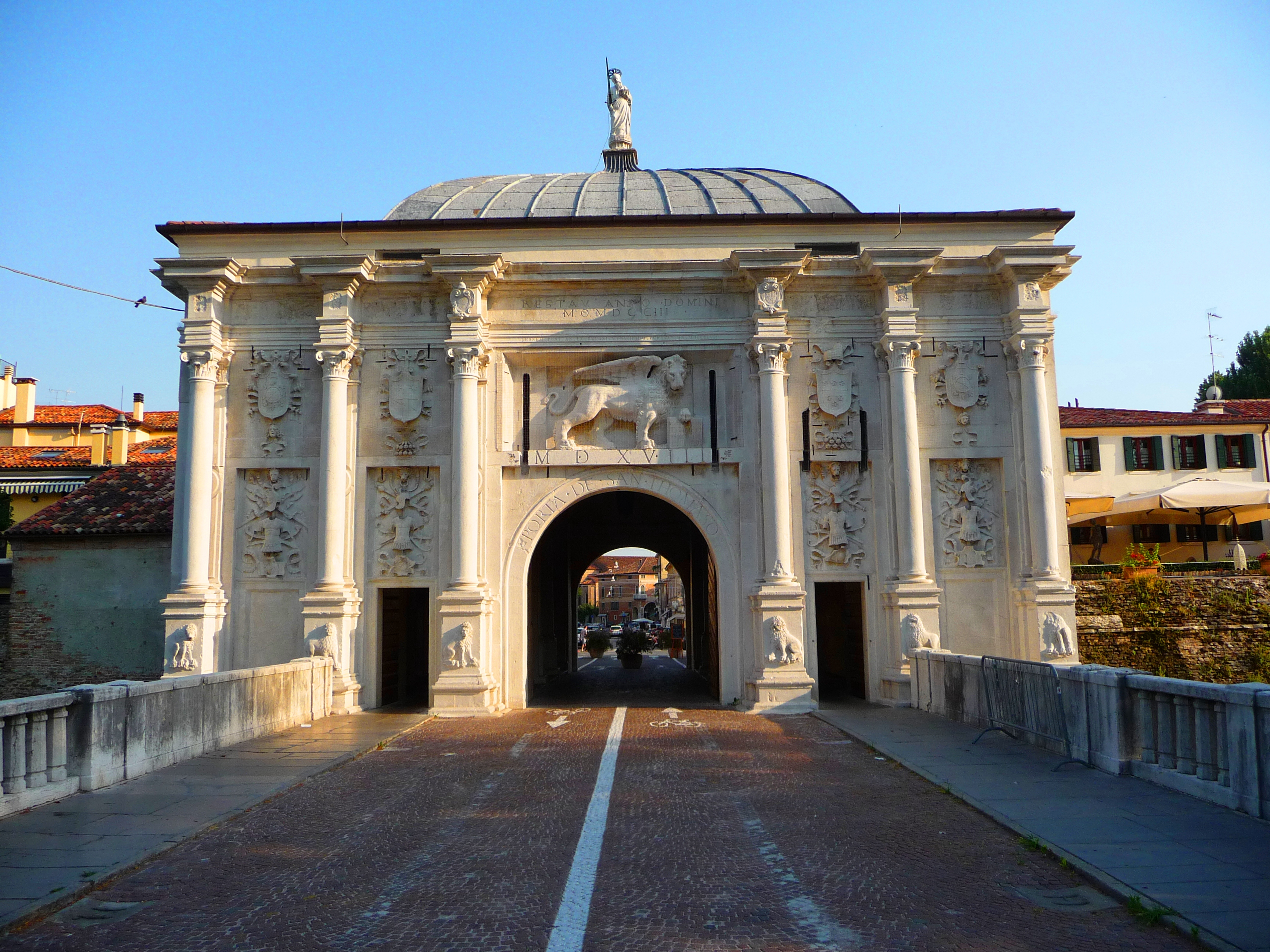 Porta San Tomaso in Treviso (IT)